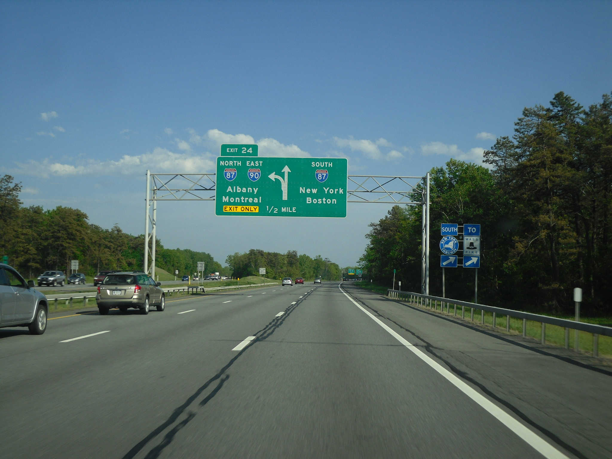 Interstate 90 leaves the New York State Thruway mainline at this junction west of Albany, New York. At this point, Interstate 87 joins the Thruway and follows it south toward New York City.